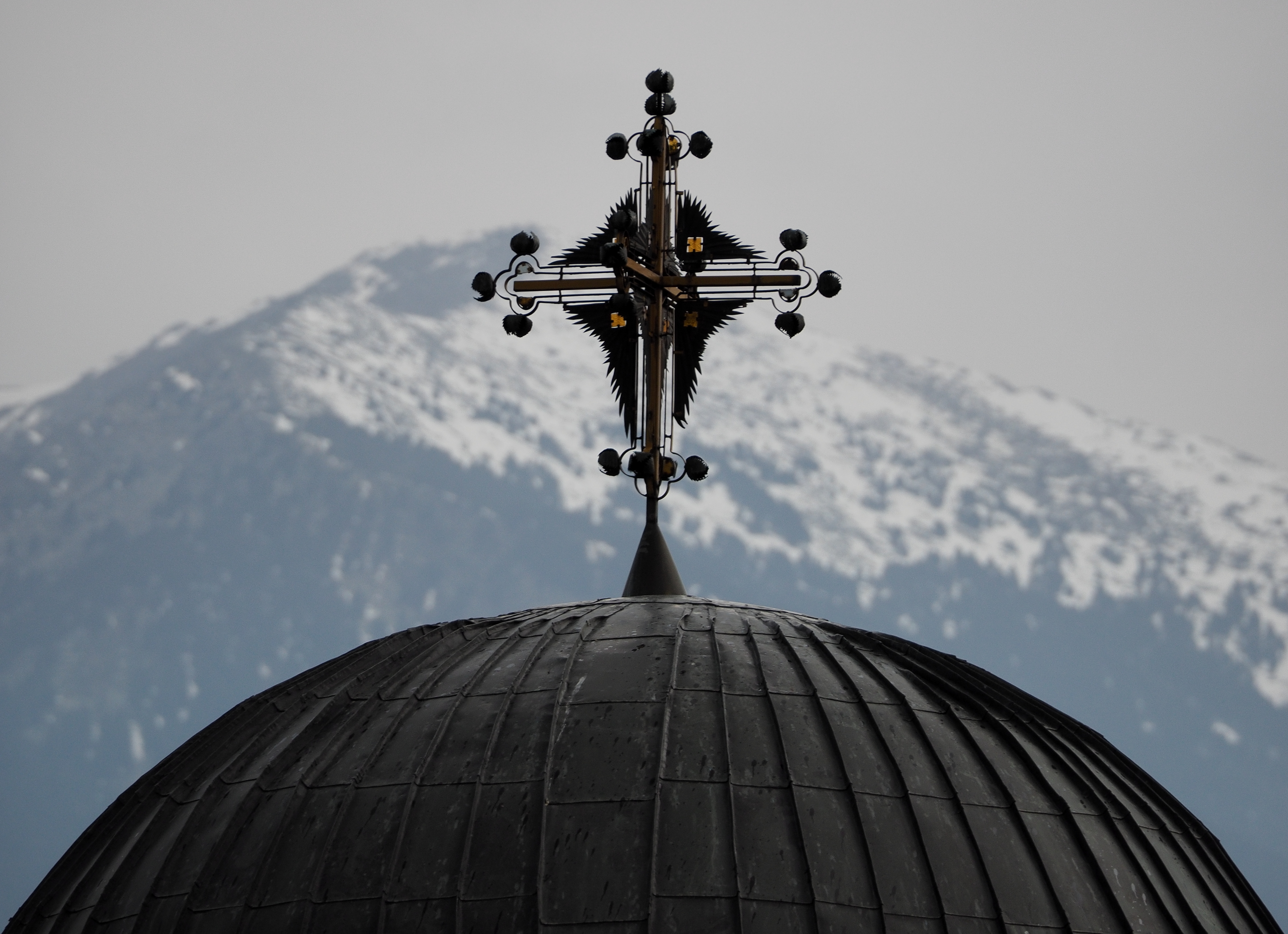 Eastern Orthodox Church "Forty Martyrs of Sebaste" аnd Baba mountain in the background, Bitola, Macedonia. Српски (ћирилица): Црква "40 маченици" на Крккардашу, са Баба планином у позадини. Битољ